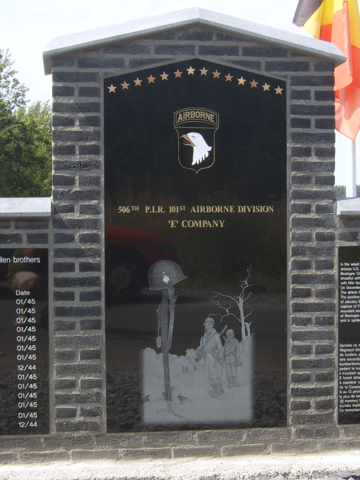 Monument for the easy Company, Foy, Bastogne Personal picture, I set it in public domain. Vberger 11:23, 22 July 2006 (UTC)